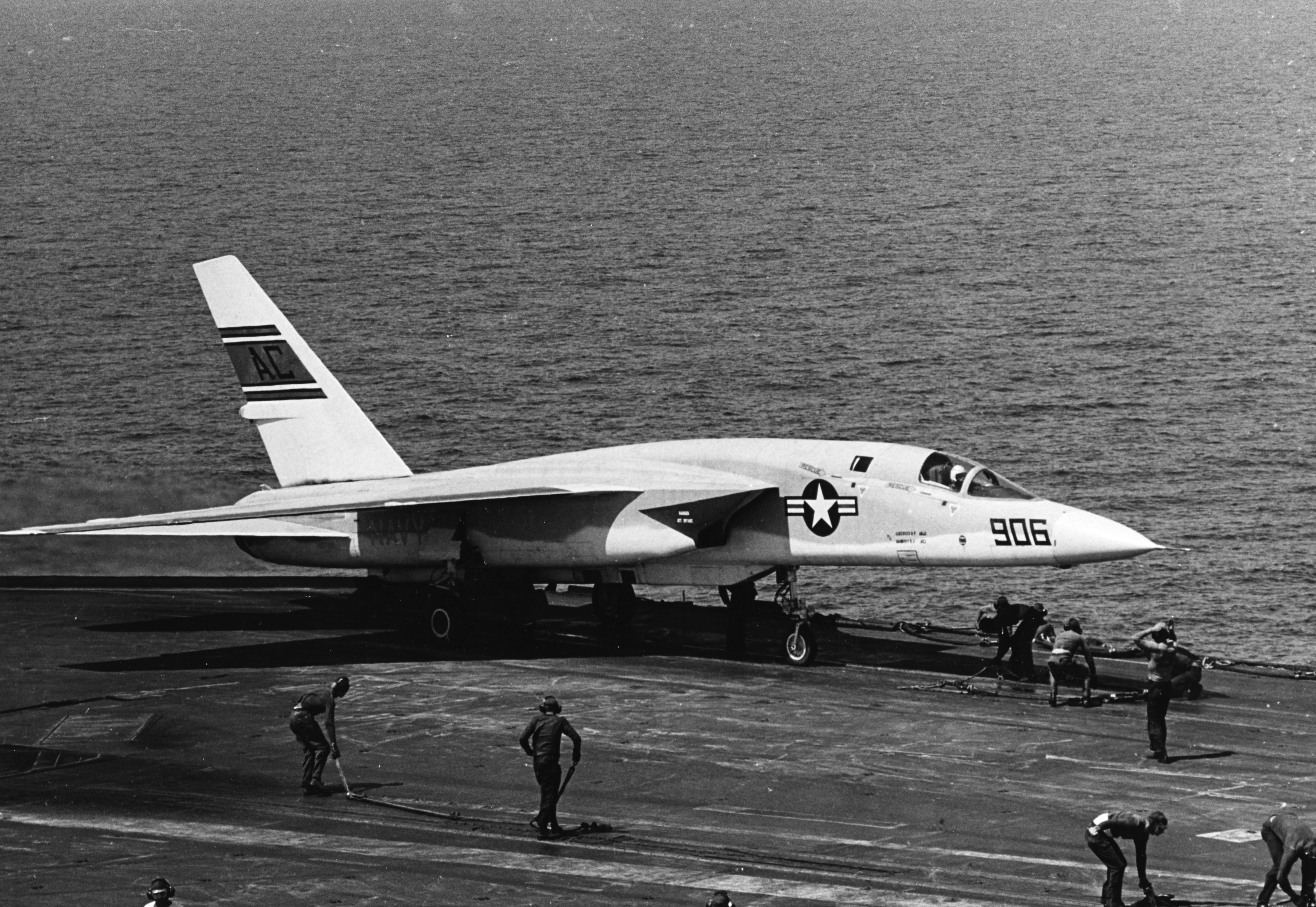 A U.S. Navy North American RA-5C Vigilante from Reconnaissance Heavy Attack Squadron 9 (RVAH-9) "Hoot Owls" is readied for launching from the deck of the aircraft carrier USS Ranger (CVA-61) in the South China Sea during "Operation Jackstay", March 1966. RVAH-9 was assigned to Attack Carrier Air Wing 14 (CVW-14) aboard the Ranger for a deployment to Vietnam from 10 December 1965 to 25 August 1966. Note that the Vigilantes of RVAH-9 kept the tail code "AC" of CVW-3 and did not adopt the tail code "NK" of CVW-14.